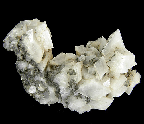 Adularia, Chlorite, Titanite Locality: Felben valley, Hohe Tauern Mts, Salzburg, Austria (Locality at ) Size: 10.0 x 6.3 x 5.0 cm. Alpine localities are well known for producing superb Adularia specimens, especially in Austria. Adularia is most commonly associated with metamorphic deposits such as those in the Alps. This specimen hosts several white, blocky, lustrous crystals of Adularia up to 2.5 cm with a "dusting" of Chlorite on the reverse side of the specimen, but there are also some very sharp, highly lustrous, gem/gemmy, green and brown crystals of Titanite (Sphene) back there as well. A very showy and three-dimensional Adularia. The piece is from the Alpine collection of Brian Kosnar and originated from the collection of Prof. Johann Zenz in Austria. According to Zenz's label, this specimen was collected in 1962.